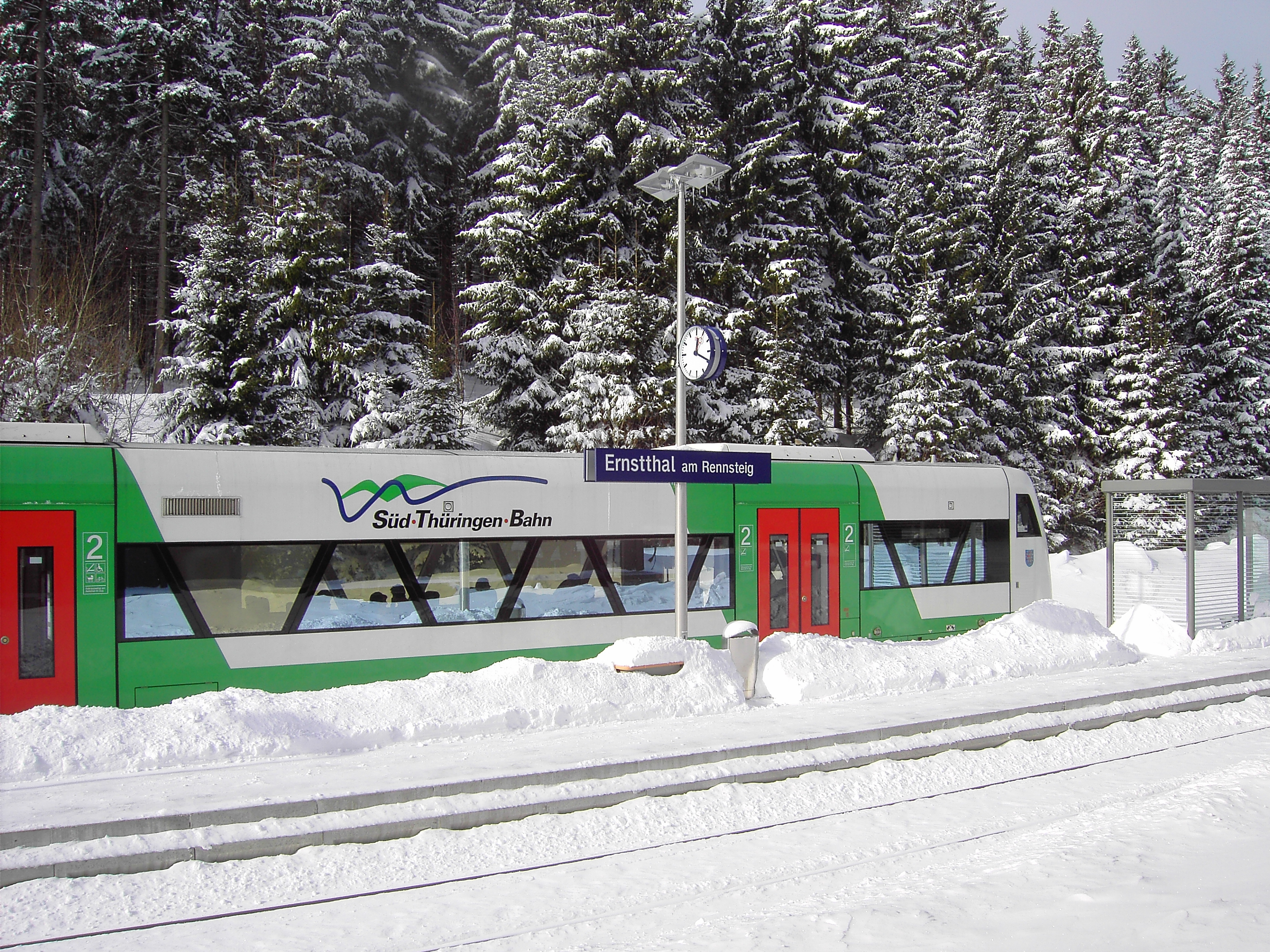 A photo of the railway station in „Ernstthal am Rennsteig“, Germany with a train of the „Süd Thüringen Bahn“.